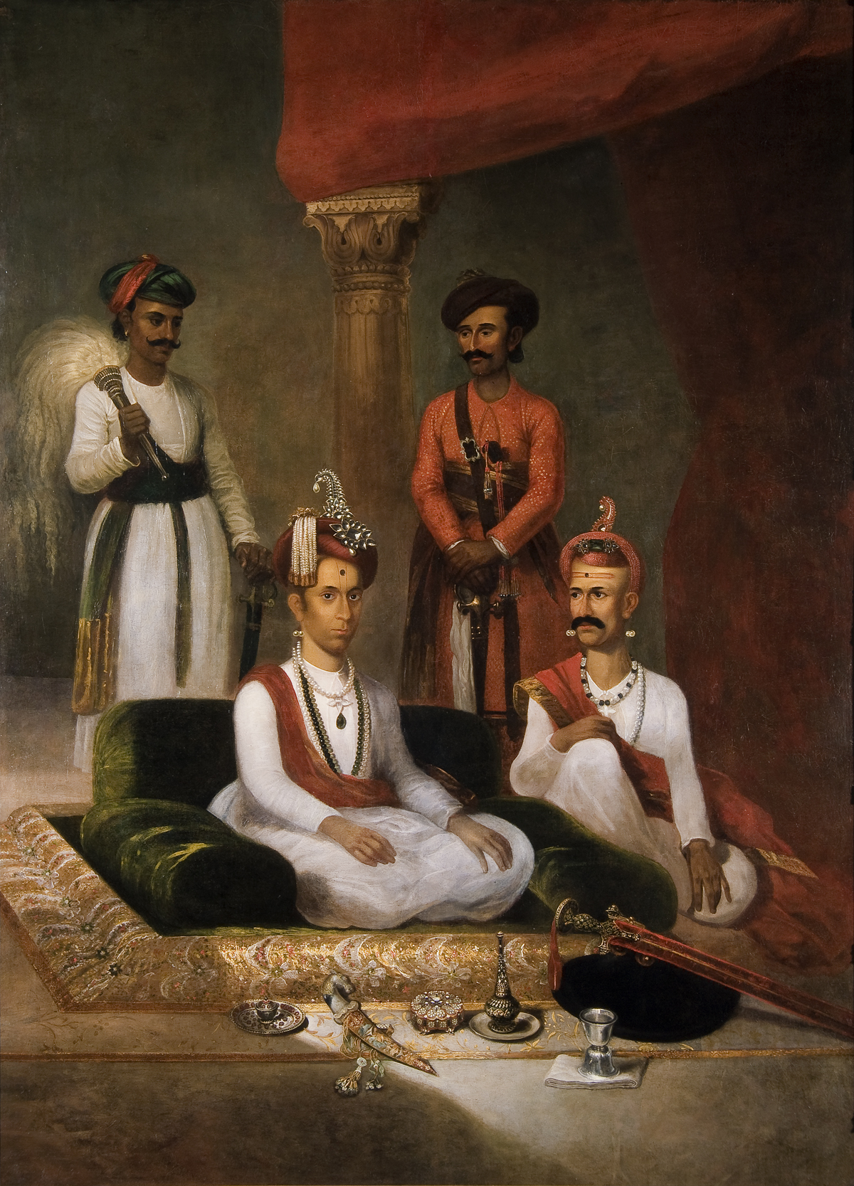 This portrait group was commissioned by the Peshwa shortly after James Wales arrived in Poona, western India, in 1792. Probably through the help of Wales's patron, Sir Charles Warre Malet, who was the British Resident at the Maratha Court, Wales was invited to paint portraits of many members of the court.